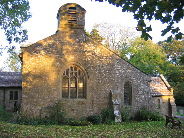 St John the Baptist, Arkholme